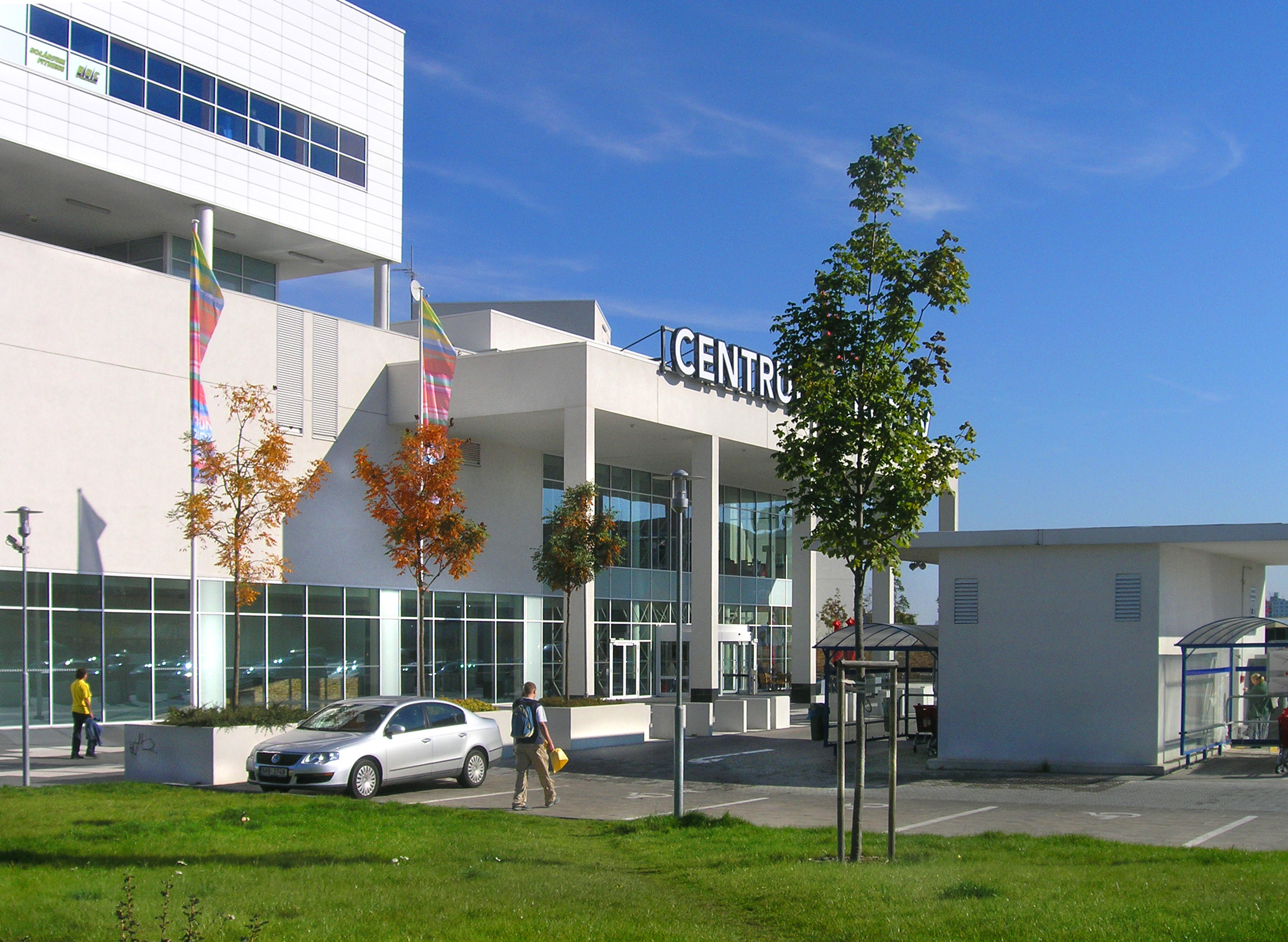 Shopping center Chodov entry in Chodov, Prague